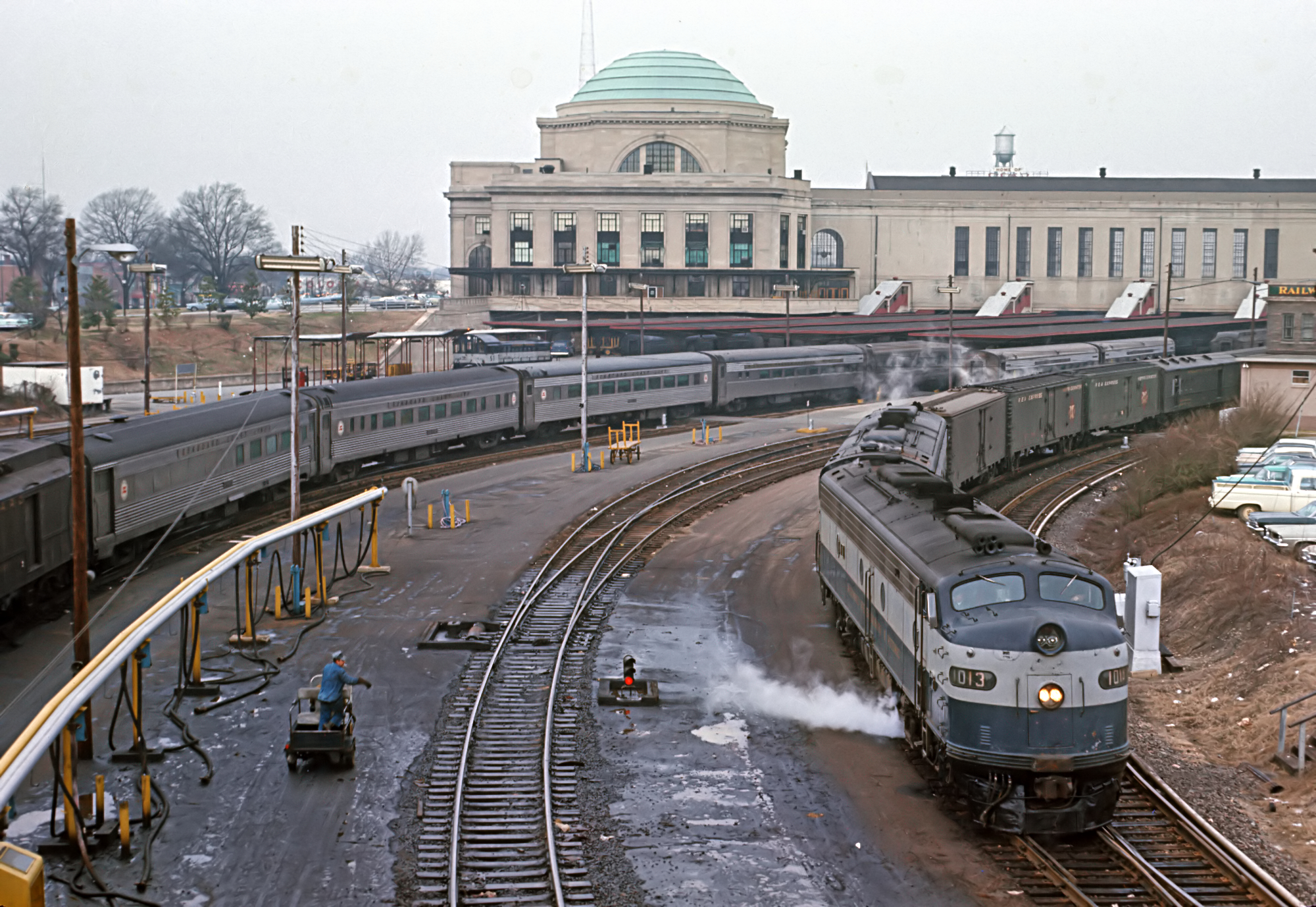 A Roger Puta Photograph